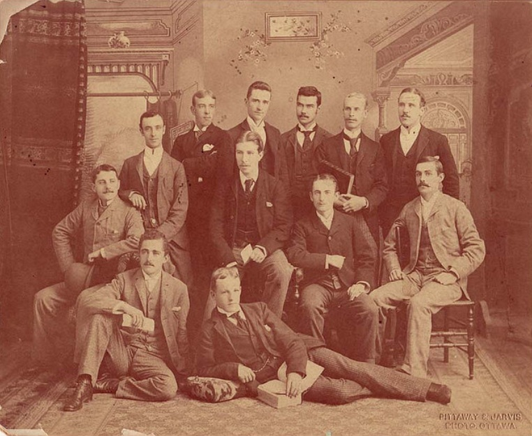 A group of articling students (apprentice lawyers) in Ottawa, Ontario, Canada.